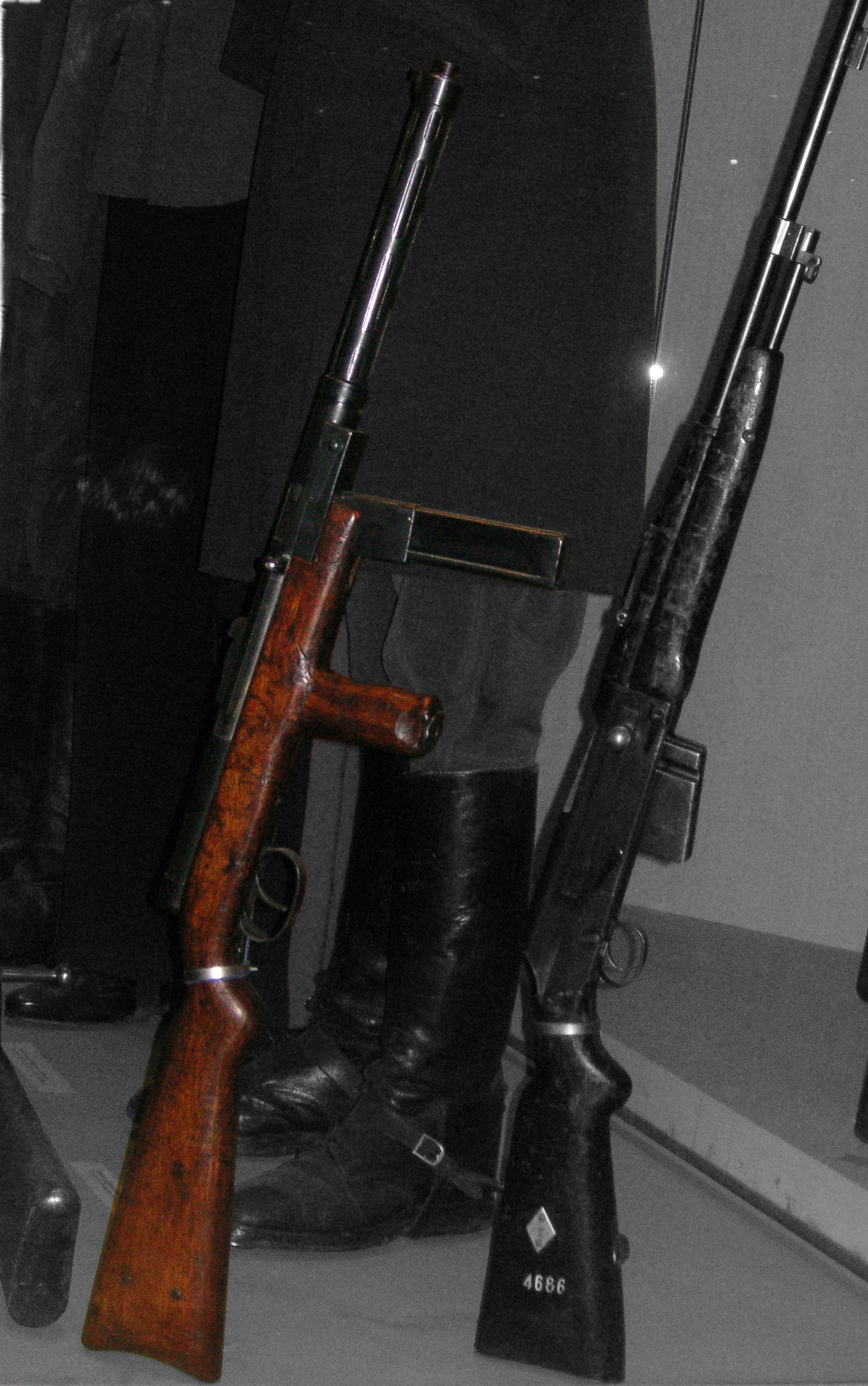 Polish-made Pistolet maszynowy wz.39 Mors sub-machine gun as seen in the Museum of the Polish Army